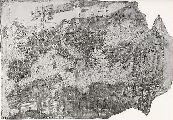 Portolan chart of Giovanni da Carignano of Genoa. Date variously assigned, c.1300, 1305, 1306, 1310, 1327, but before 1333. It was undated but signed "Presbiter Johannes Rector sancti Marci di portu Janue me fecit". If the earlier dates are accepted (before 1311), it may be the oldest known signed portolan chart. This chart was long held by the Archivio di Stato in Florence, Italy. The Carignano chart was destroyed in 1943 in the course of a bombing.